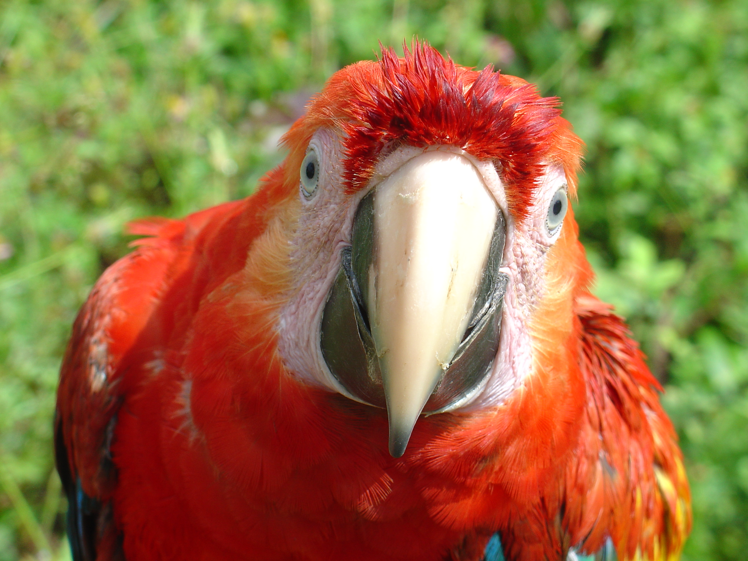 Please, have this description accessible to all by translating it in different languages.